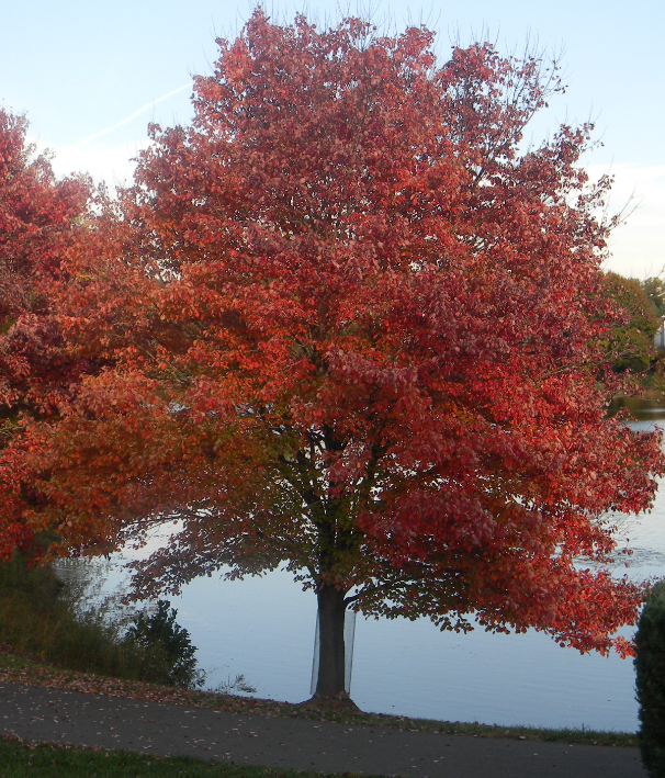 Red Maple showing fall foliage